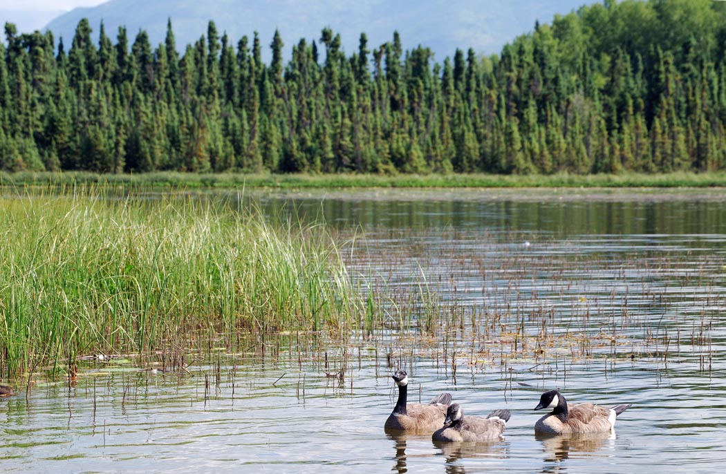 Canada goose trio on Goose Lake, Anchorage [1]